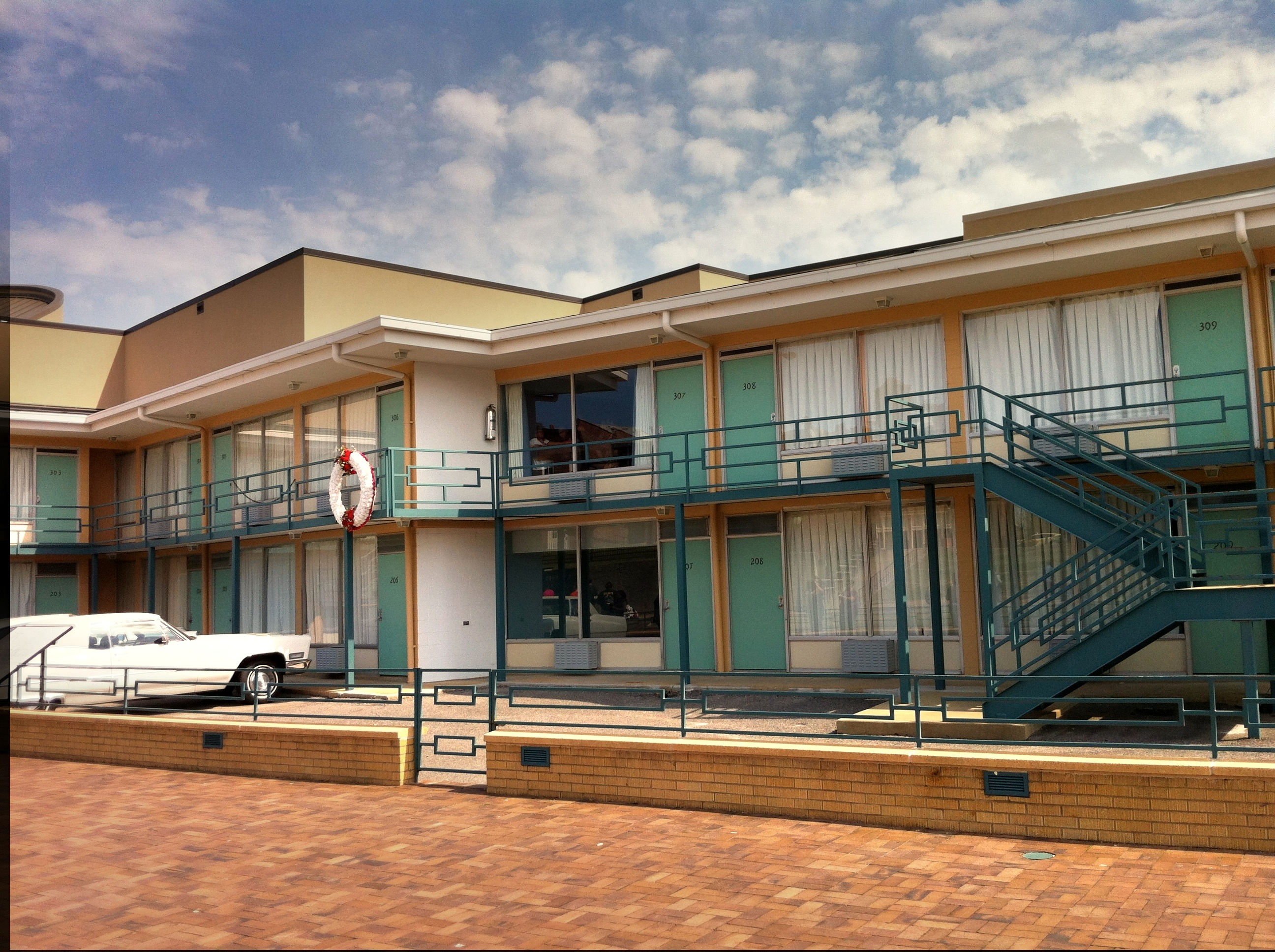 SW-NE view of the site of the assassination of Martin Luther King, Jr. at the Lorraine Motel, site of the National Civil Rights Museum, Memphis, Tn.